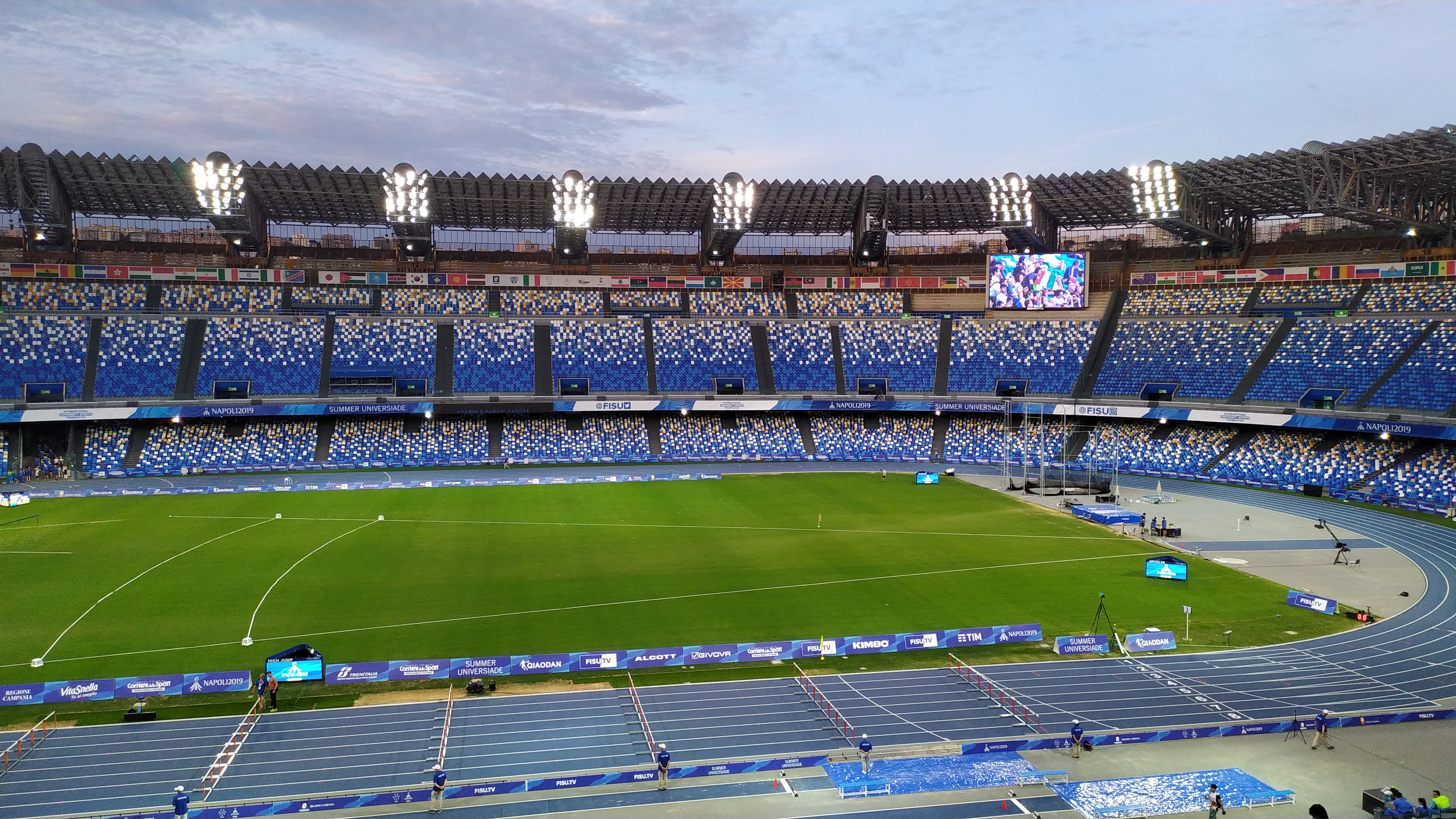 The "San Paolo" Stadium in Naples (Italy) during the 2019 Summer Universiade.